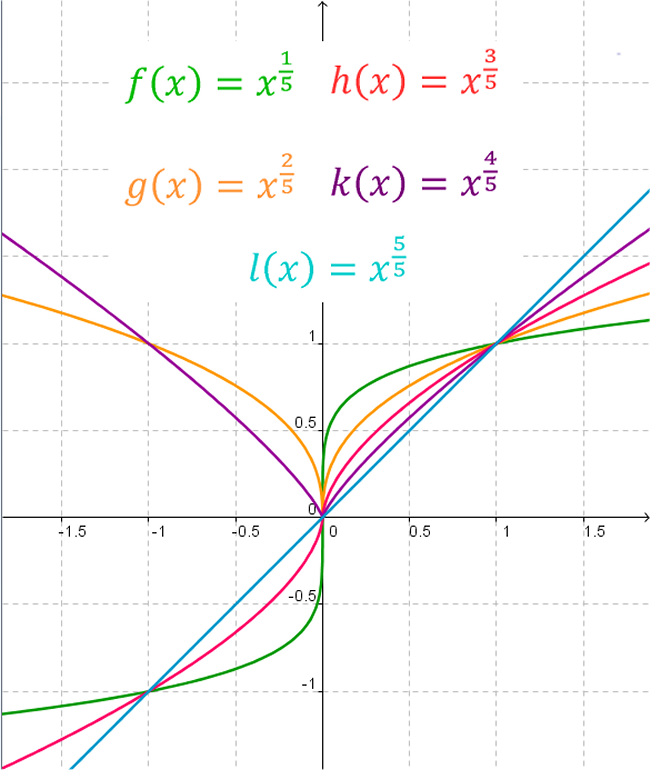 All roots of 5